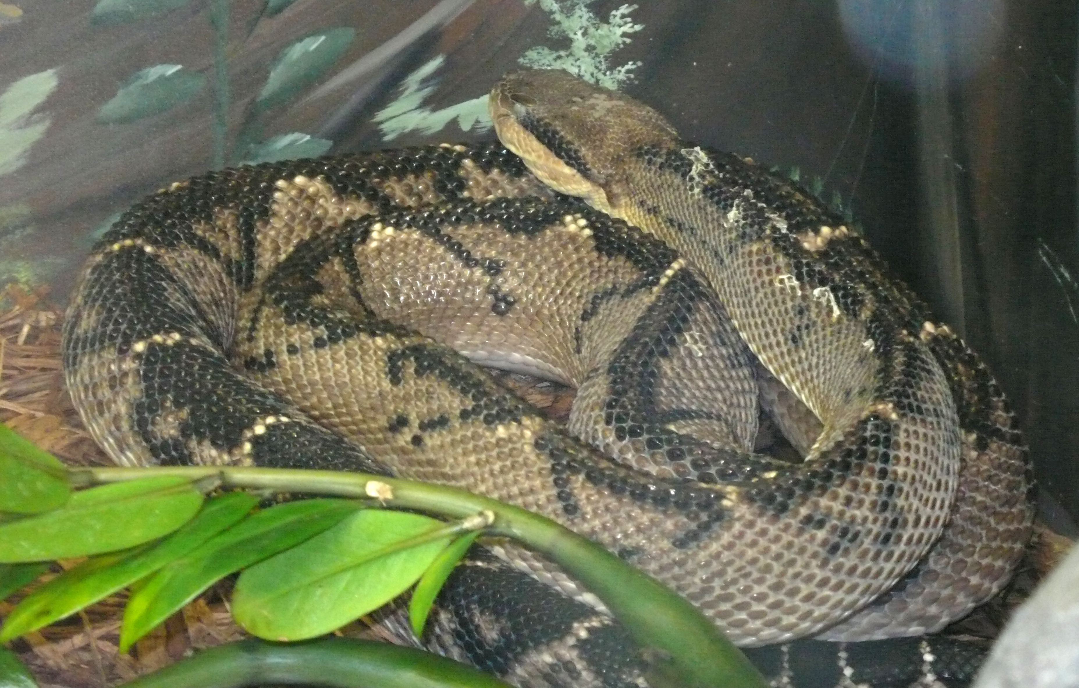 Central American bushmaster (Lachesis stenophrys)